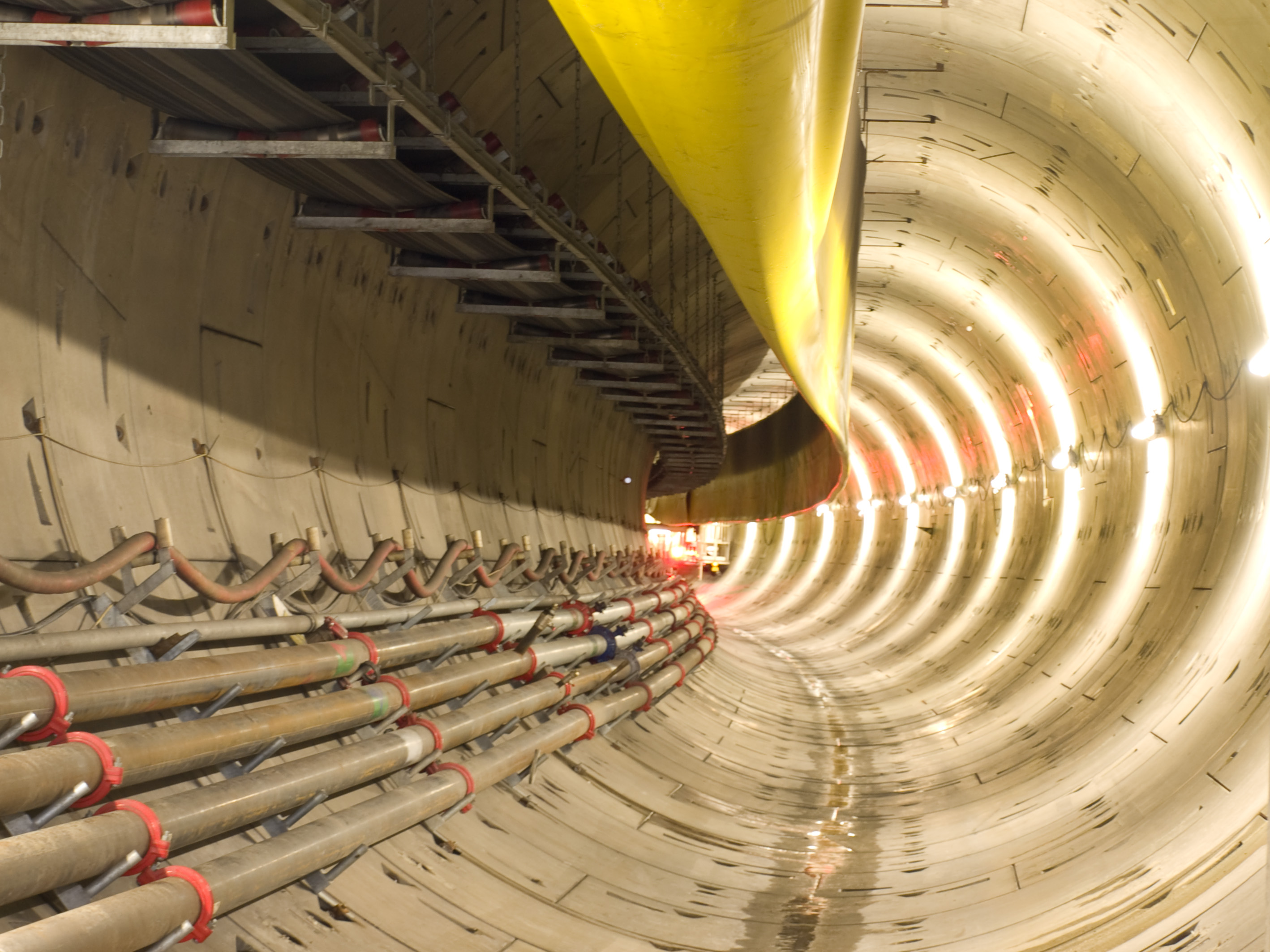 Open doors day in Vypich metro construction site of new section V.A metro, Prague 6